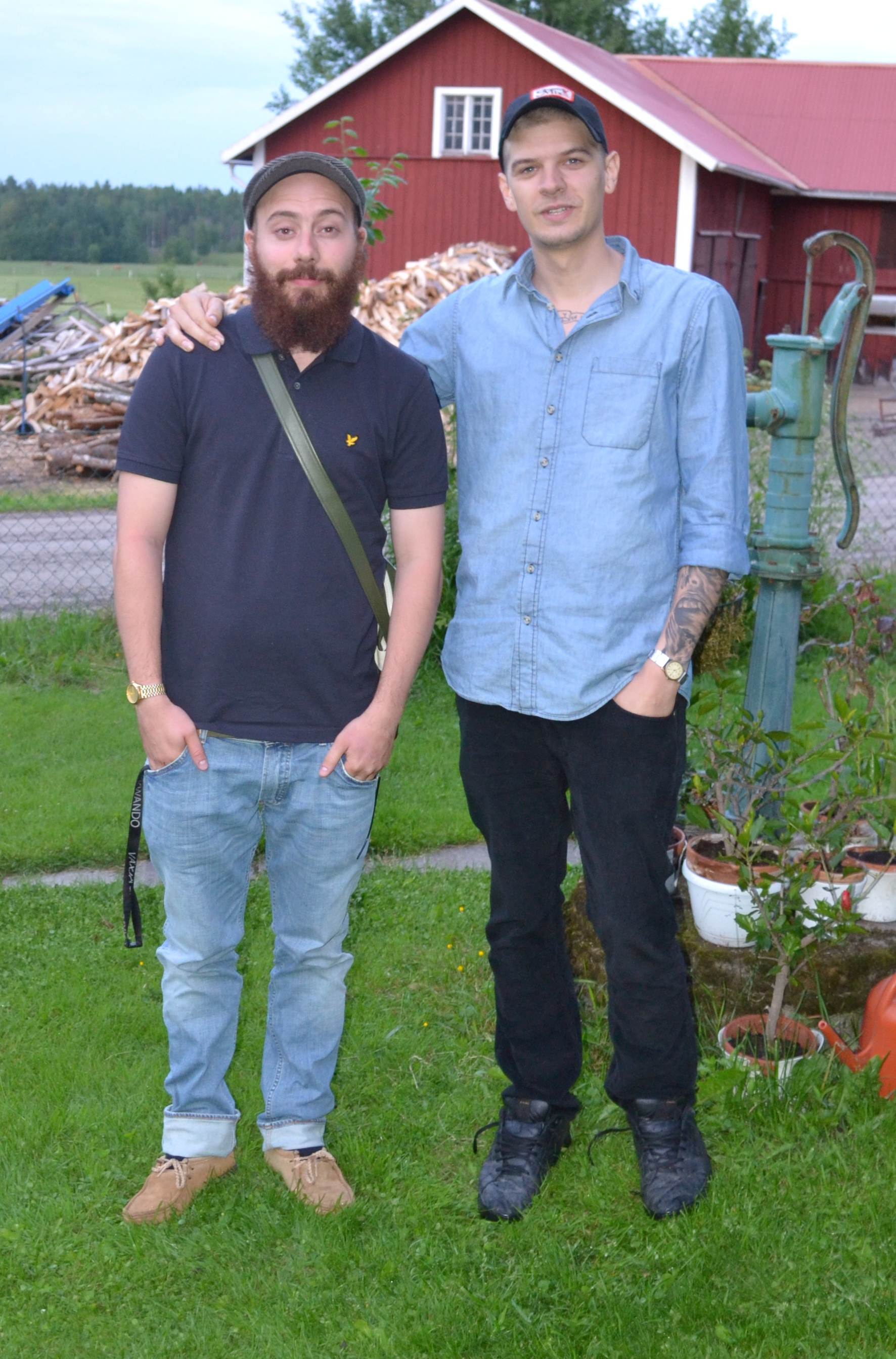 Rap artist Menteroja and singersongwriter Erling Bronsberg at a farm in Swedish province Närke.